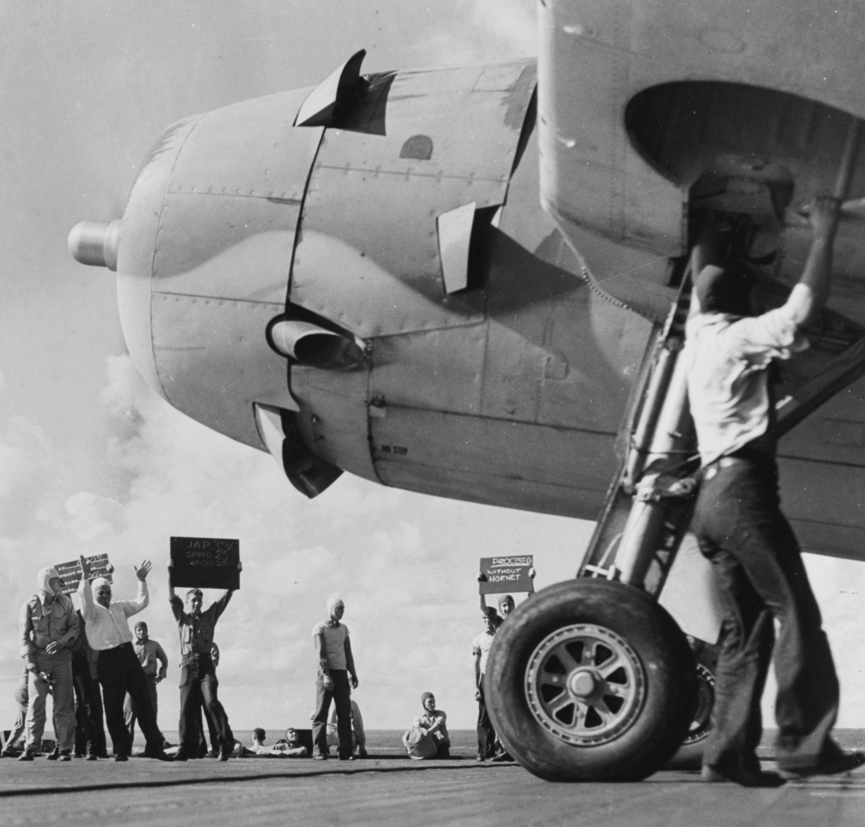 A U.S. Navy Grumman TBF-1 Avenger from Torpedo Squadron 10 (VT-10) prepares for launch from the aircraft carrier USS Enterprise (CV-6) during the Battle of the Santa Cruz Islands, 26 October 1942. The sign visible beyond the plane's landing gear reads "PROCEED WITHOUT HORNET", indicating Enterprise´s strike is not to wait to join up with a strike being launched by the USS Hornet (CV-8). The sign to the left reads "JAP 'CV' SPEED 25 AT 0830" (Japanese aircraft carrier, speed 25 knots, at 0830°).